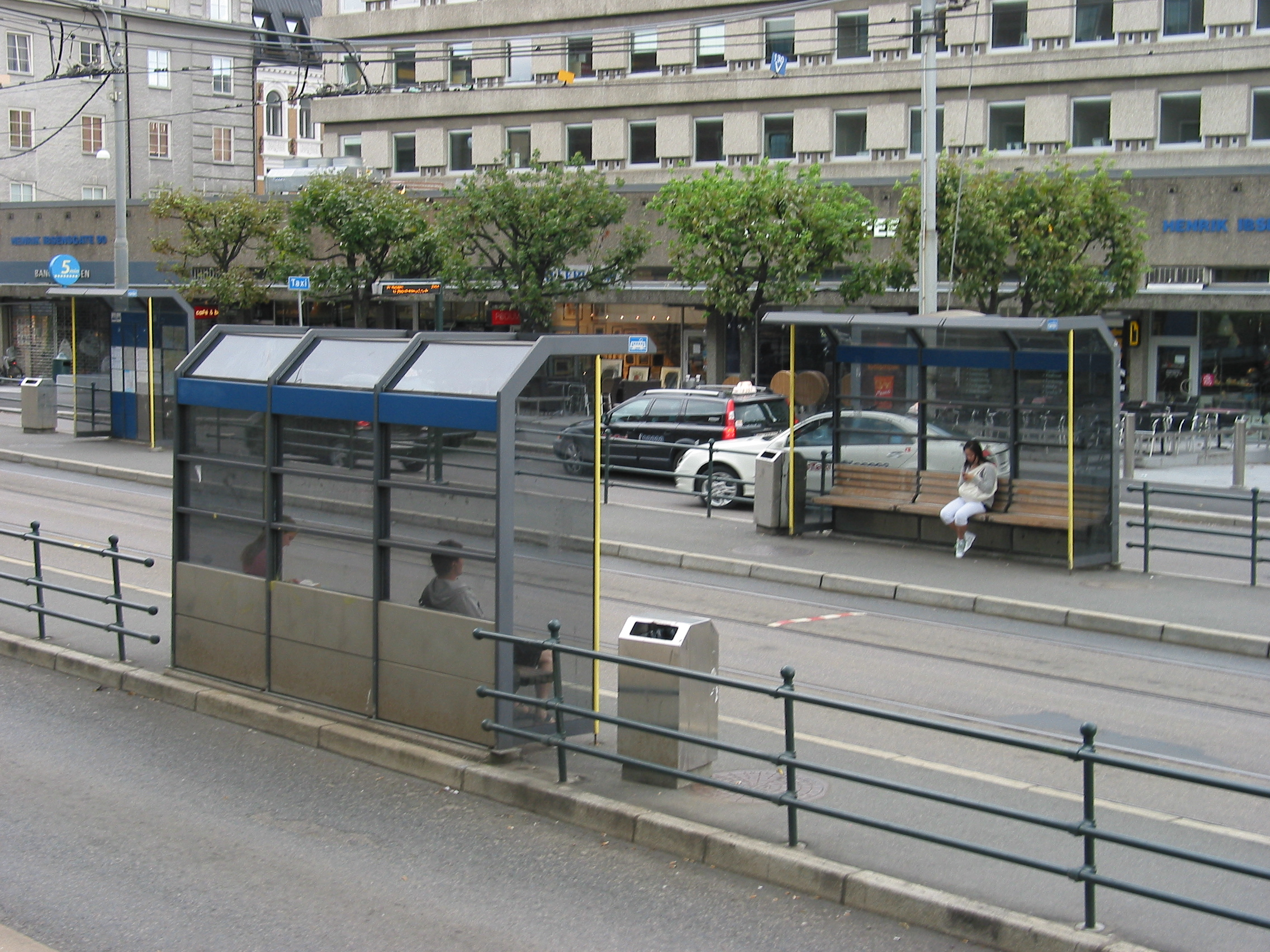 Tramway station Solli at Solli plass, Frogner, Oslo, Norway